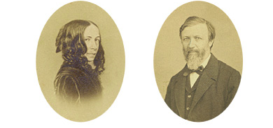 Elizabeth Barrett Browning and Robert Browning